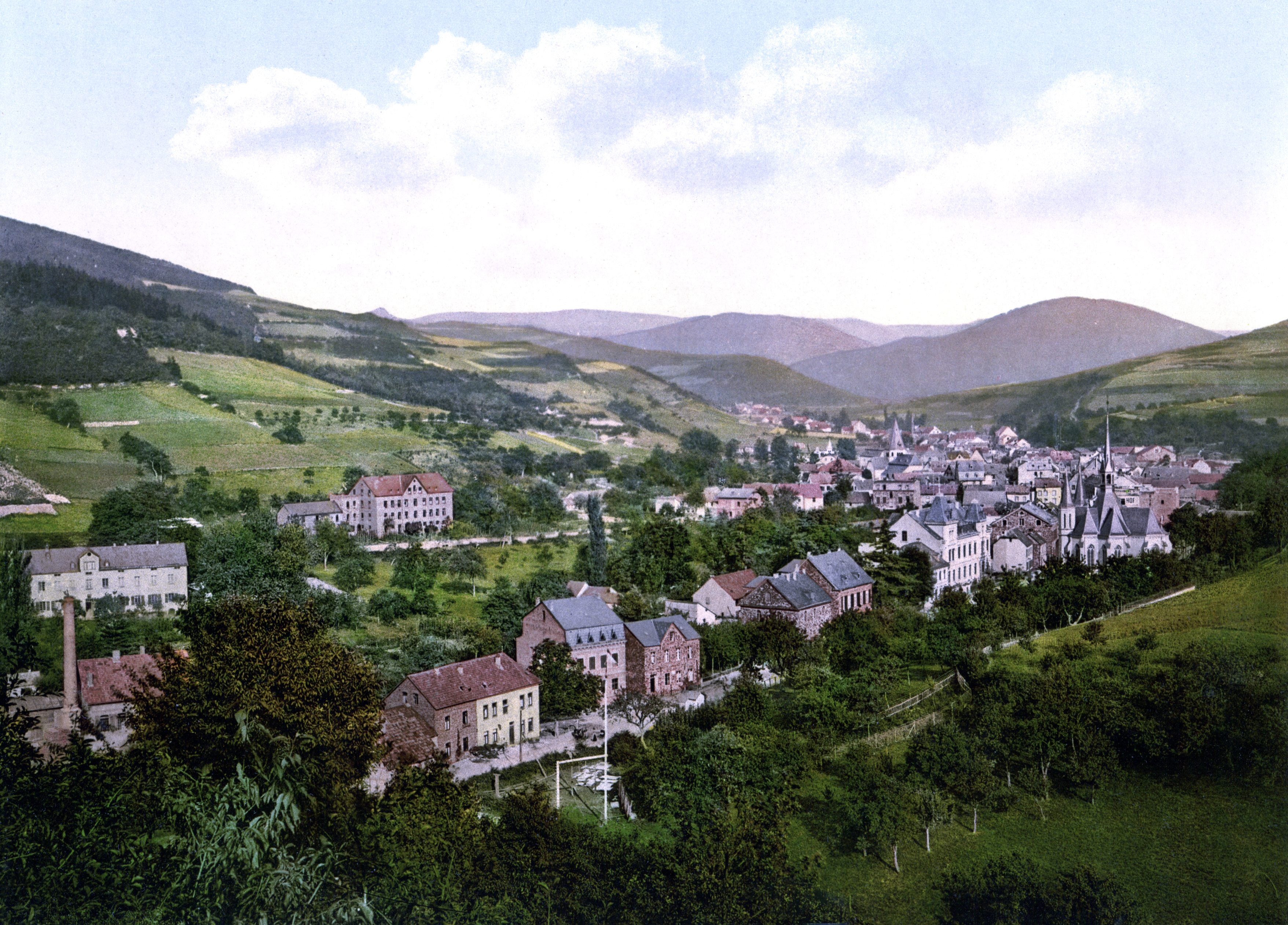 Adenauh, Germany (about 1900)